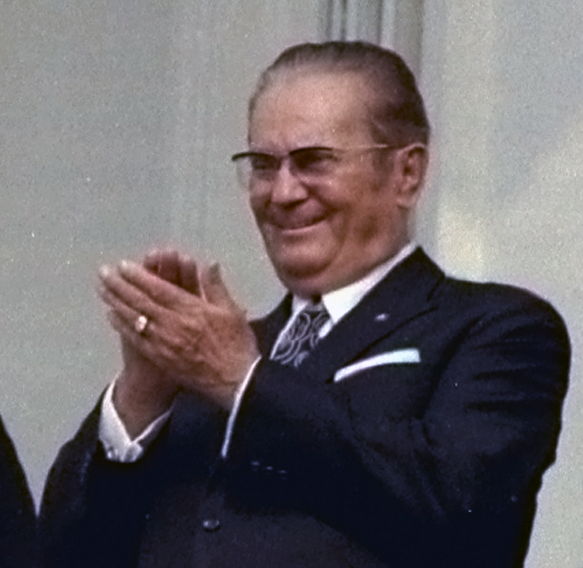 Josip Broz Tito in 1971 during a visit to the Nixon whitehouse.